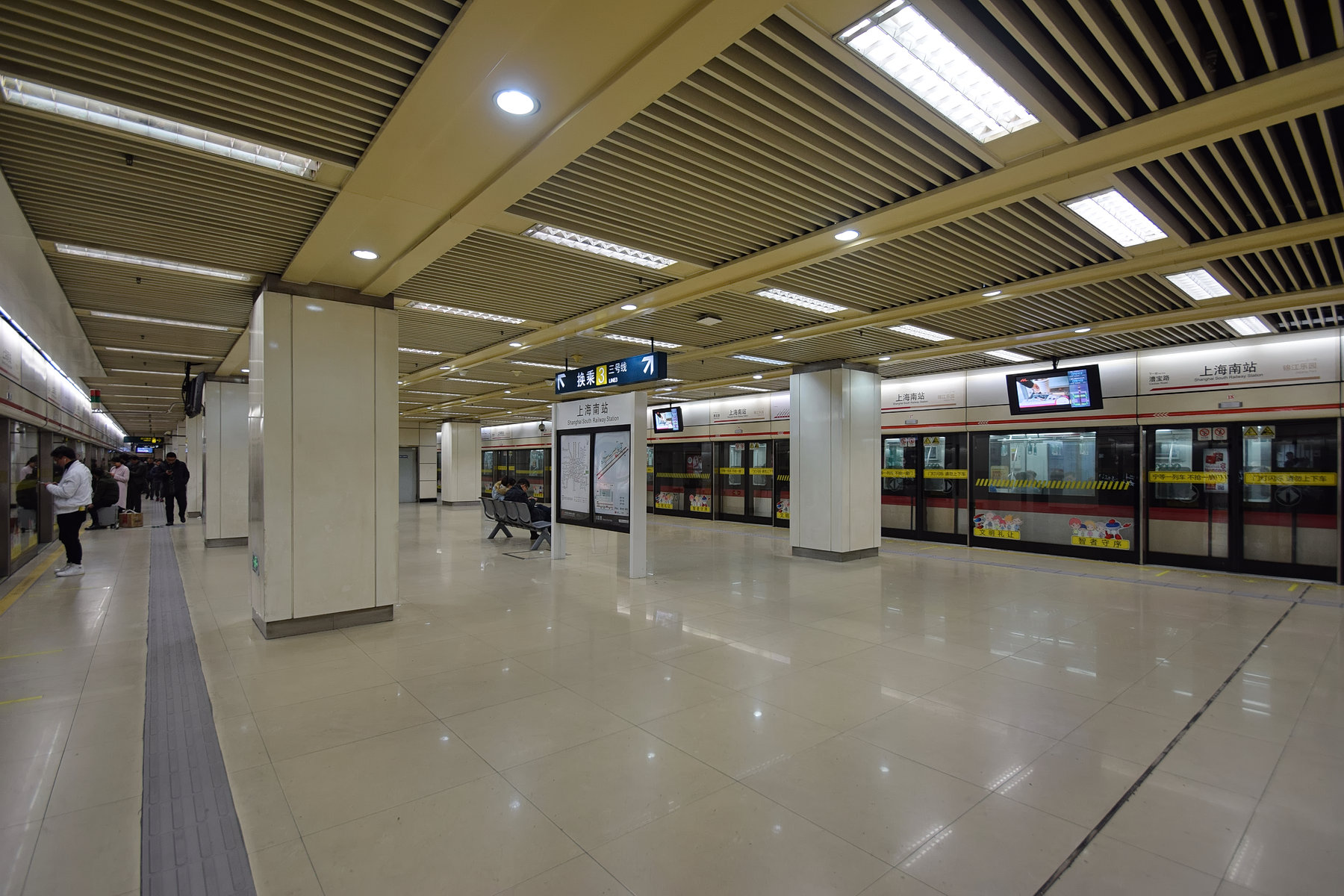 Line 1 Platform of Shanghai South Railway Station Station, Shanghai Metro